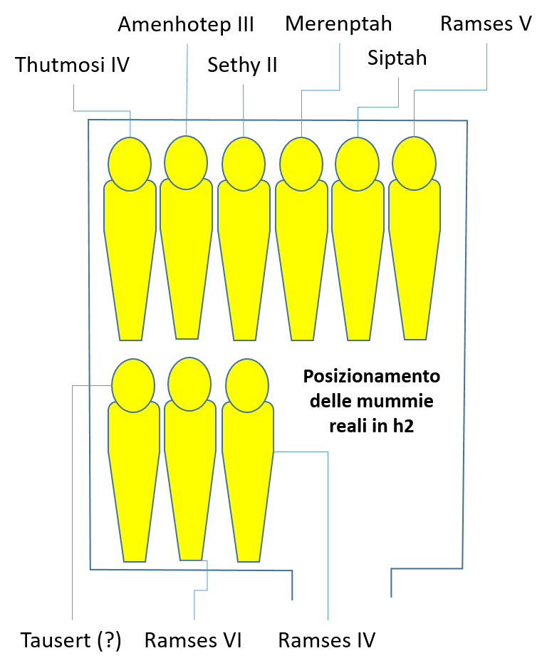 Royal mummies in KV35